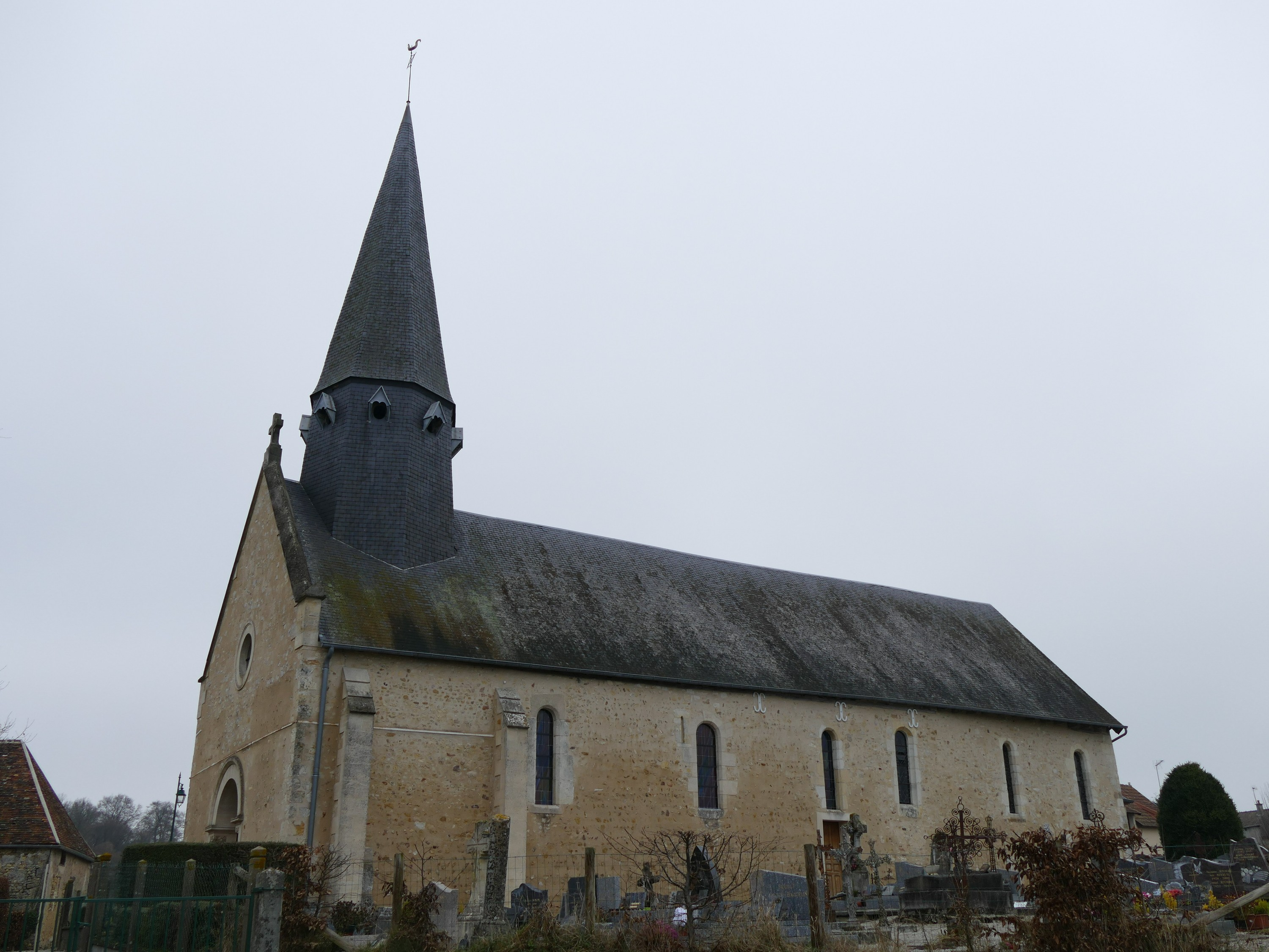 Our Lady's church in Marchemaisons (Orne, Normandie, France).